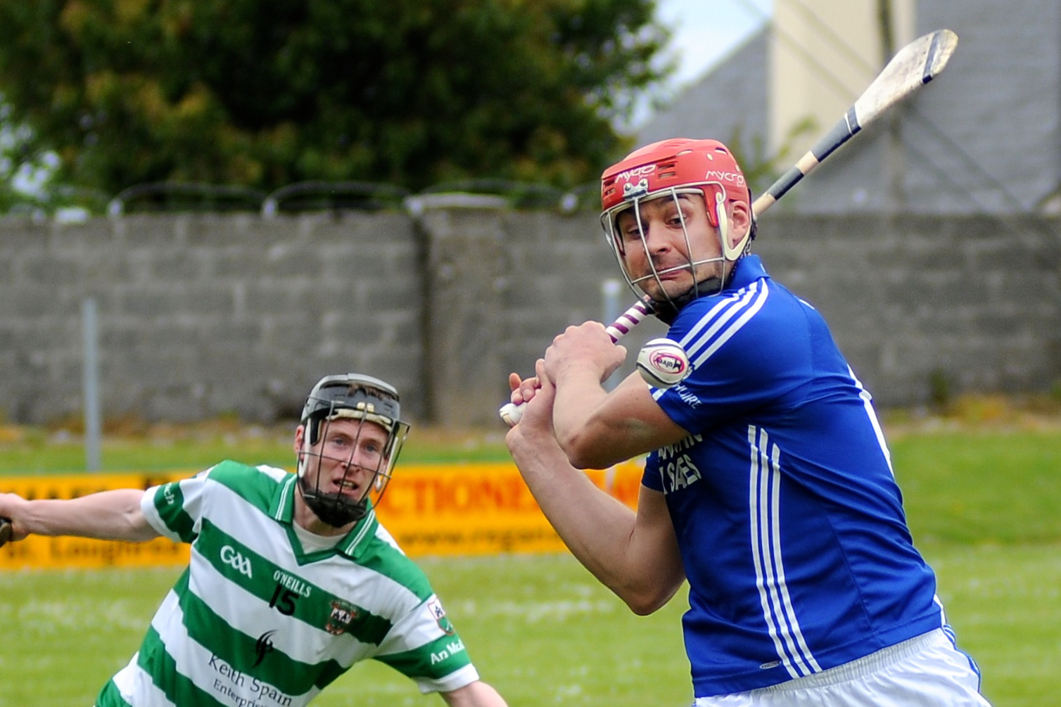 Iarla Tannian in action for Ardrahan against Mullagh's Stephen Cahalan in the 2013 Galway Senior Hurling Championship